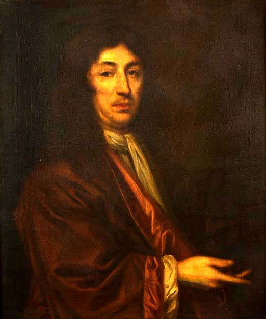 Portrait of a Man, purported to be Massachusetts and New Hampshire colonial governor Joseph Dudley